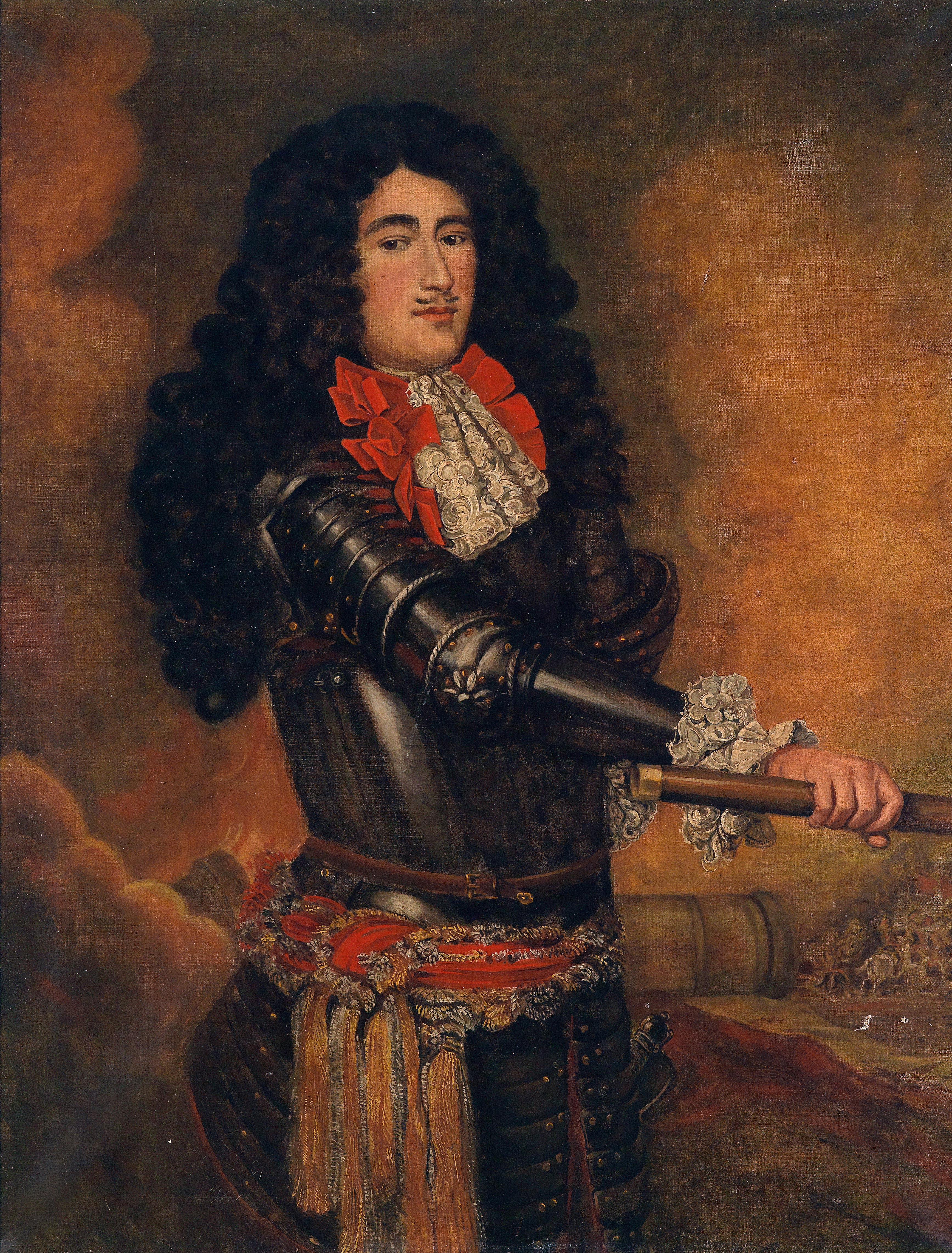 Portrait of Heinrich VI of Reuss (1649-1697)